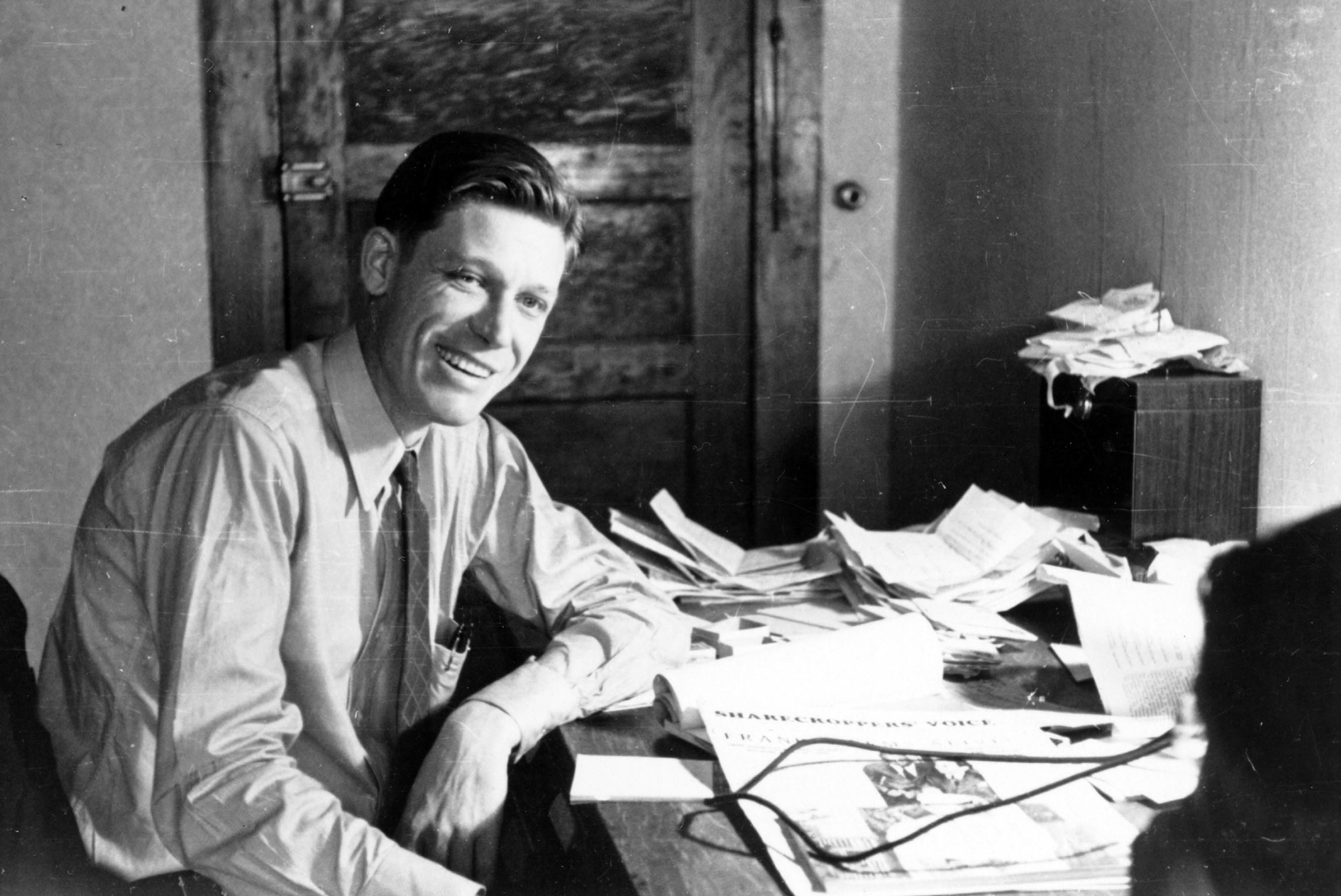 H. L. Mitchell (Harry Leland Mitchell), executive secretary and later president of the Southern Tenant Farmers Union, working in his office at the STFU headquarters in Memphis, TN by Louise Boyle Date: 1937 Photographer: Louise Boyle Photo ID: 5859pb2f17cp700g Collection: Louise Boyle. Southern Tenant Farmers Union Photographs, 1937 and 1982 Repository: The Kheel Center for Labor-Management Documentation and Archives in the ILR School at Cornell University is the Catherwood Library unit that collects, preserves, and makes accessible special collections documenting the history of the workplace and labor relations. Notes: Copyright: The copyright status of this image is unknown. It may also be subject to third party rights of privacy or publicity. Images are being made available for purposes of private study, scholarship, and research. The Kheel Center would like to learn more about this image and hear from any copyright owners who are not properly identified so that we may make the necessary corrections. Tags: Kheel Center for Labor-Management Documentation and Archives,Cornell University Library,Offices, Union Officers